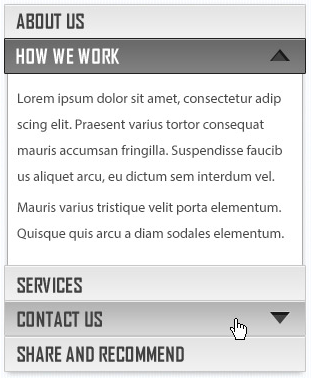 Example instance of the accordion widget in graphical user interfaces